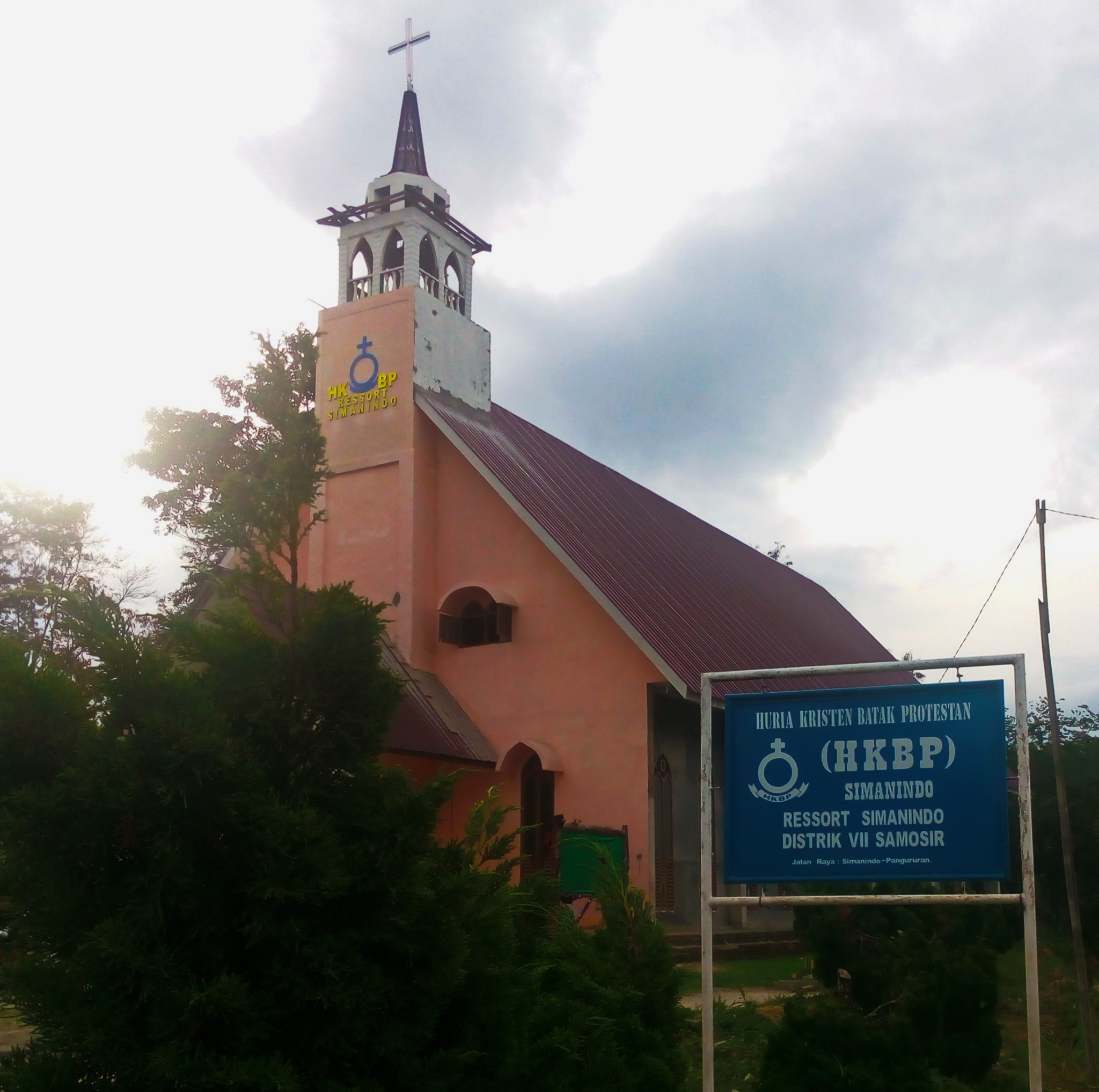 HKBP Simanindo, Church in Simanindo, Samosir